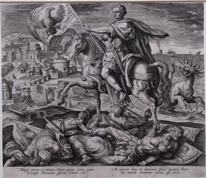 Plate 4: Julius Caesar. Caesar, in armour and with a laurel wreath, on horseback, bearing a standard depicting an eagle; the horse trampling three kings with standards depicting a lion, a ram and a goat; a city in the background to left and the sea to right; a ferocious sea-creature to right rises from the sea towards Caesar; after Maarten de Vos. The engraving illustrates the Book of Daniel, chapter 7 and 8.